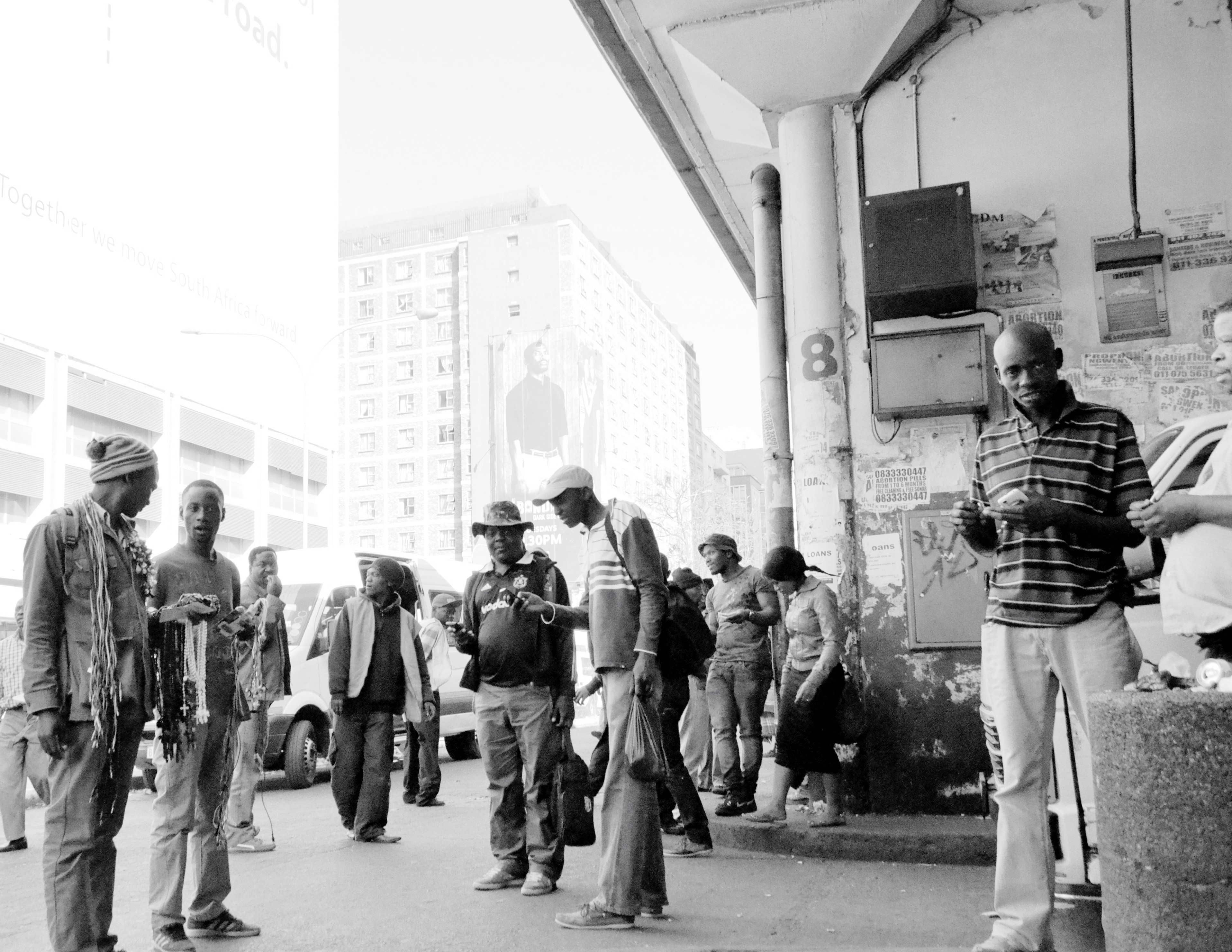 Africa is increasingly urban, here is a group of commuters in a Johannesburg Taxi Rank This is an image of "African people at work" from South Africa